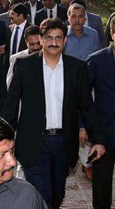 Karachi Zoo Visit of Murad Ali Shah (CM SINDH) & Wasim Akhtar (Mayor Karachi).